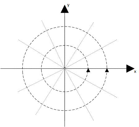 Spinning Vortex